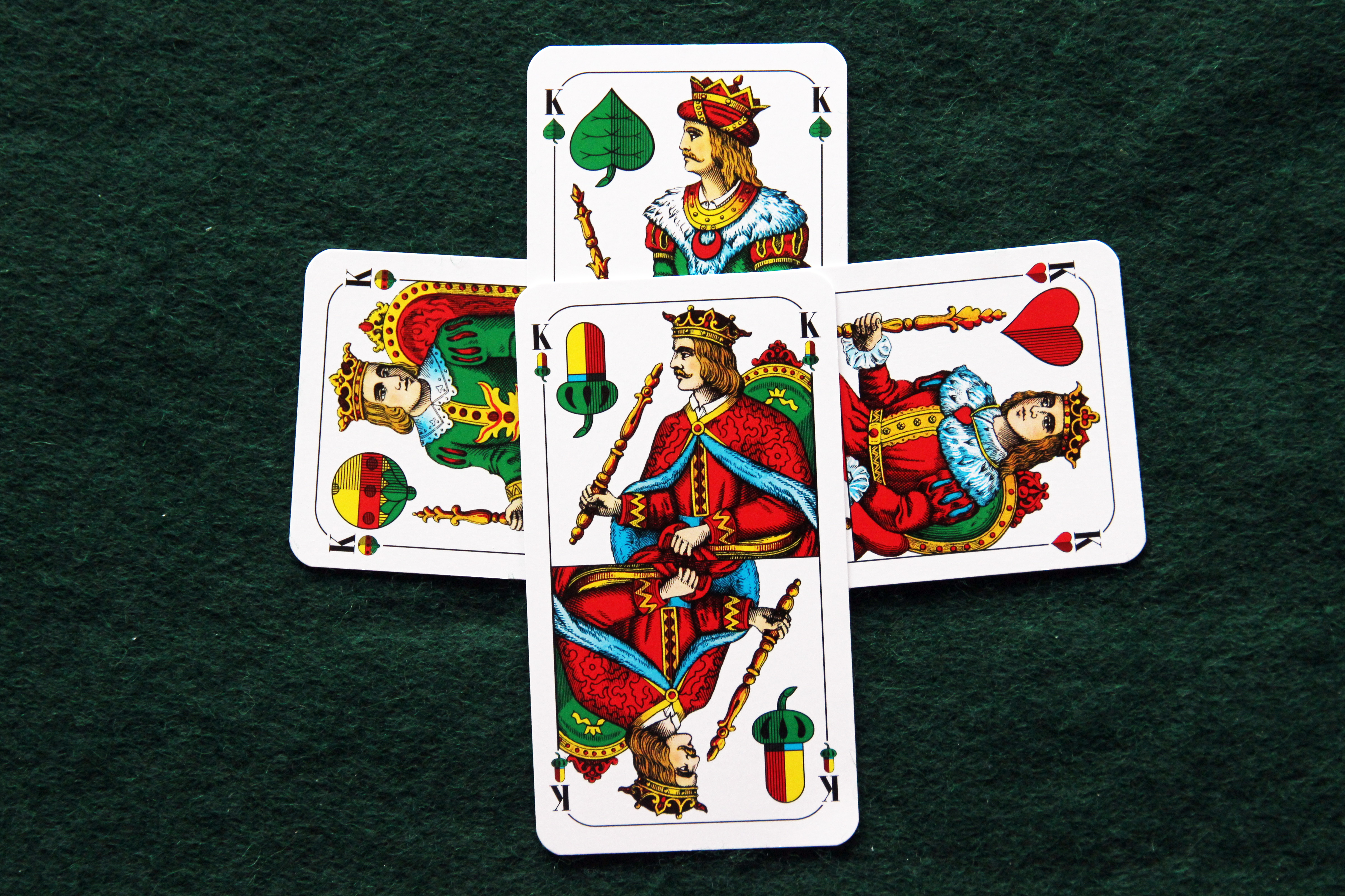 The four Kings of a Bavarian pattern, German-suited pack, played to a trick